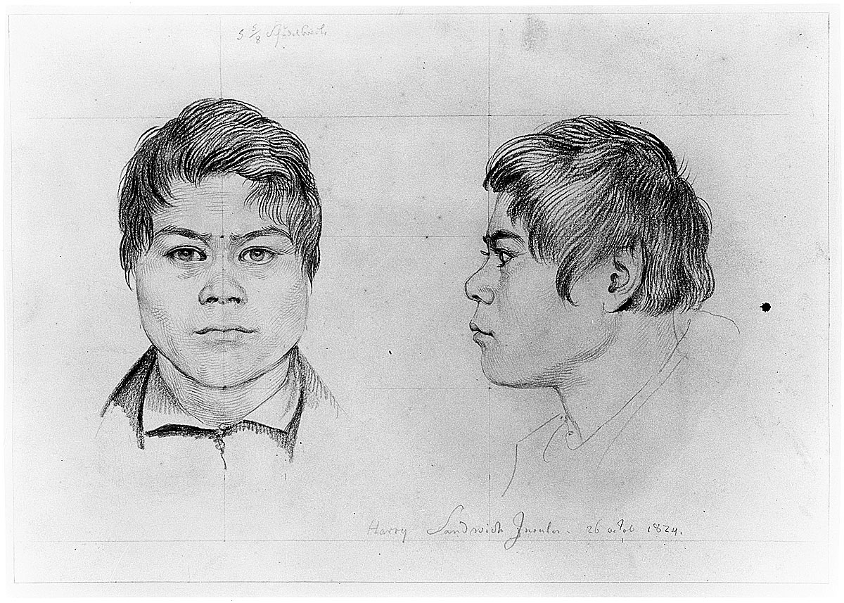 Drawing of Harry Maitey (1807-1872)